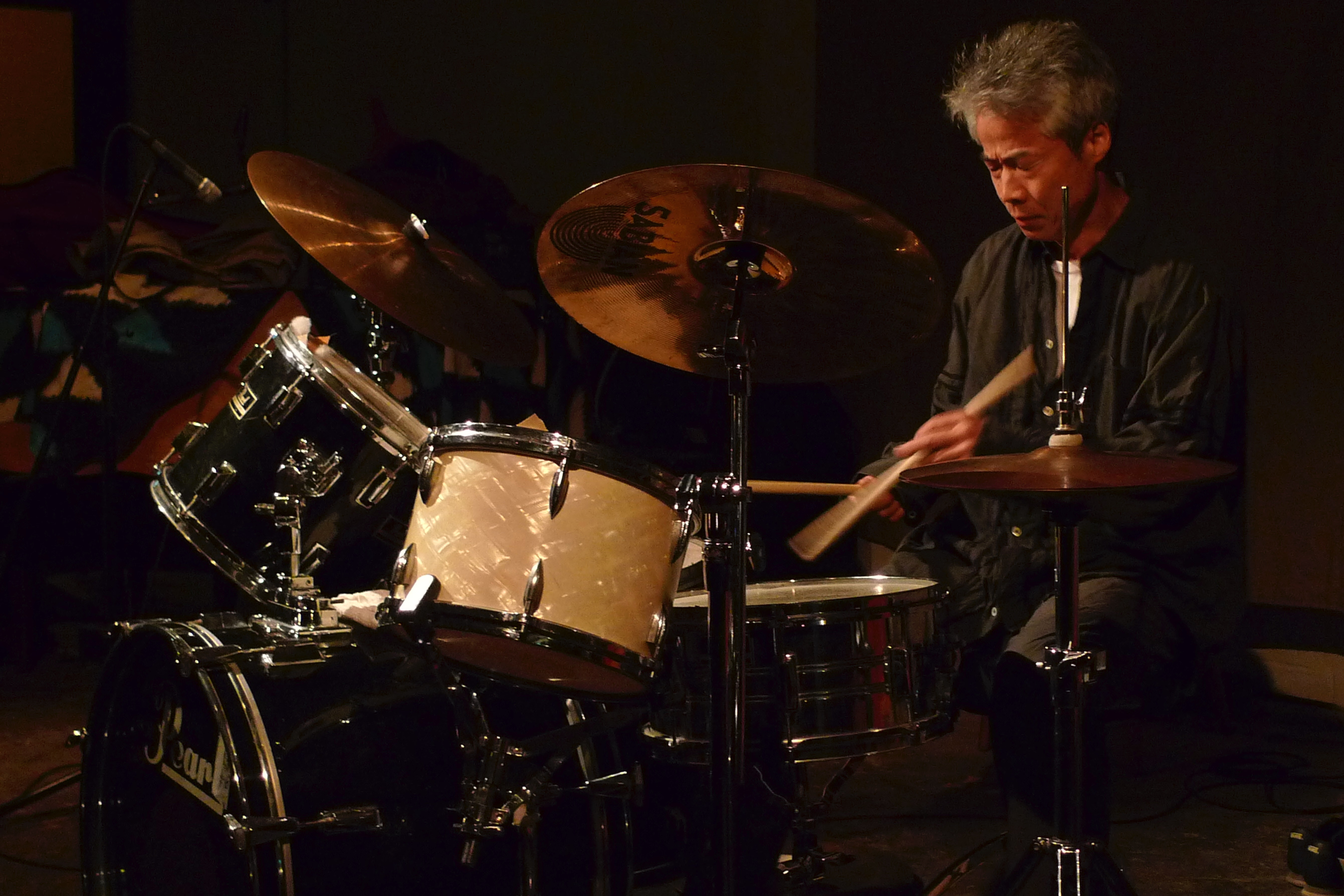 Shoji Hano, Paul Dunmall, John Edwards @ Cafe Oto, London 12.4.11